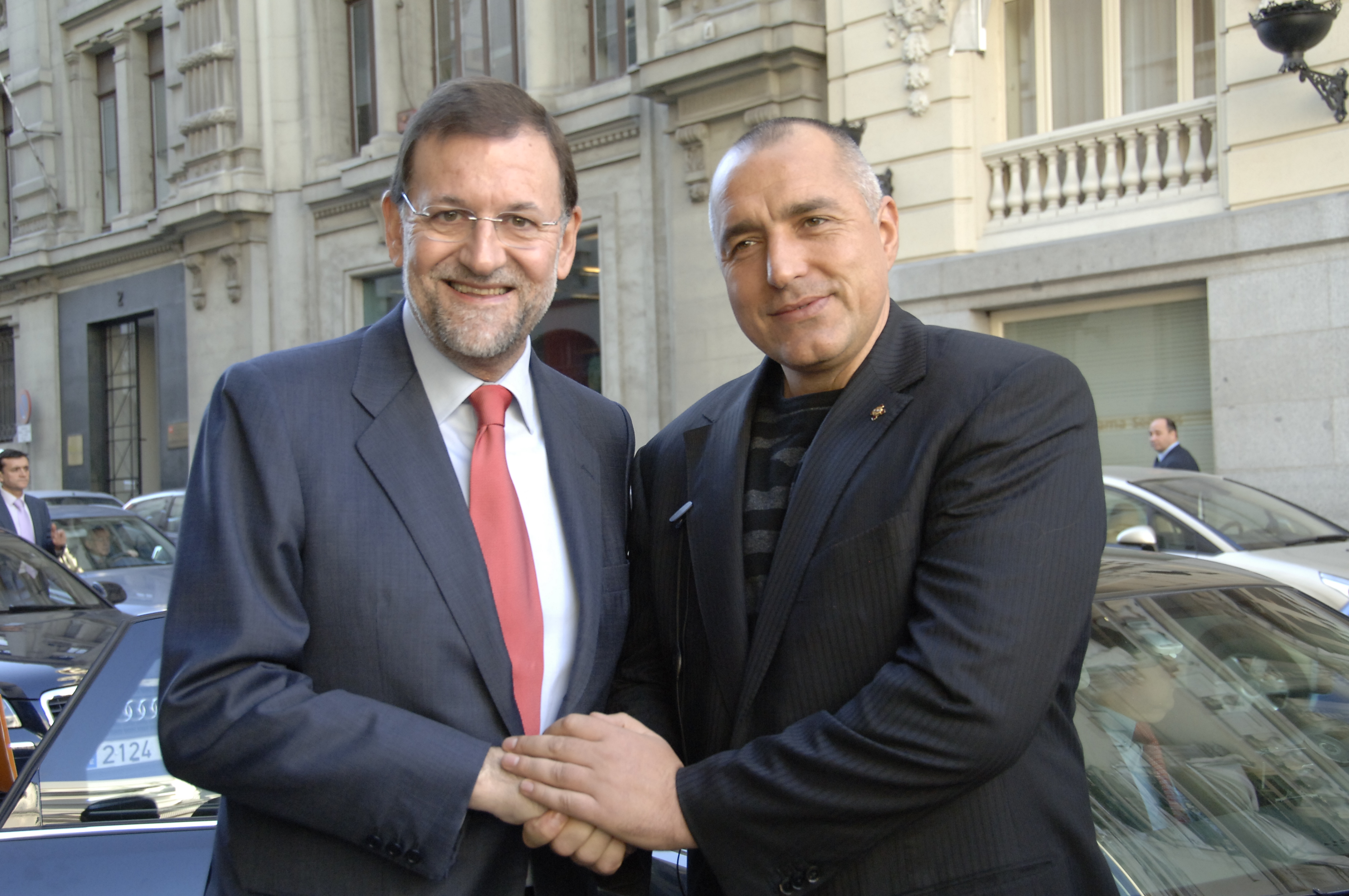 EPP CONVENTION ON CLIMATE CHANGE IN MADRID (6-7 FEBRUARY 2008)